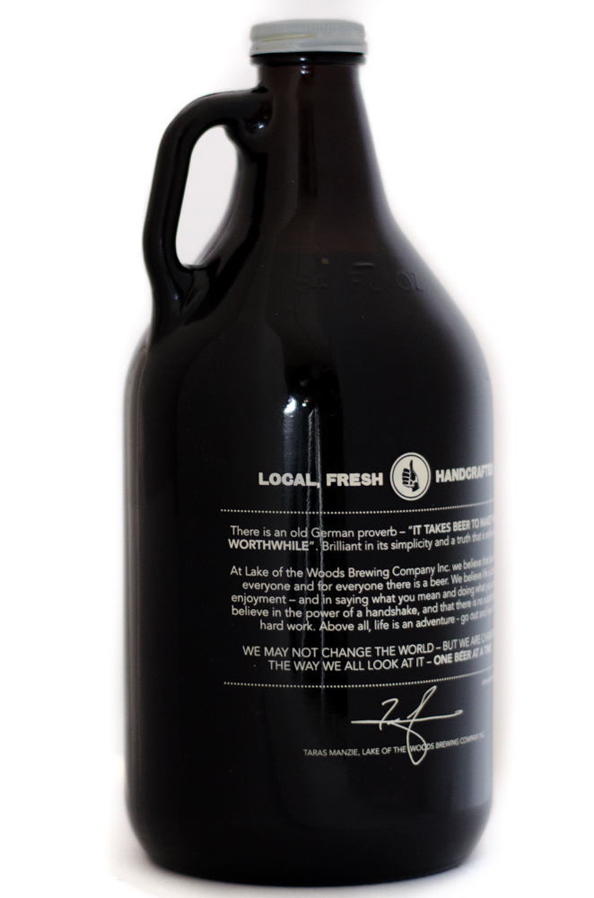 64 fluid ounce Growler style beer bottle in brown glass with a screw top cap